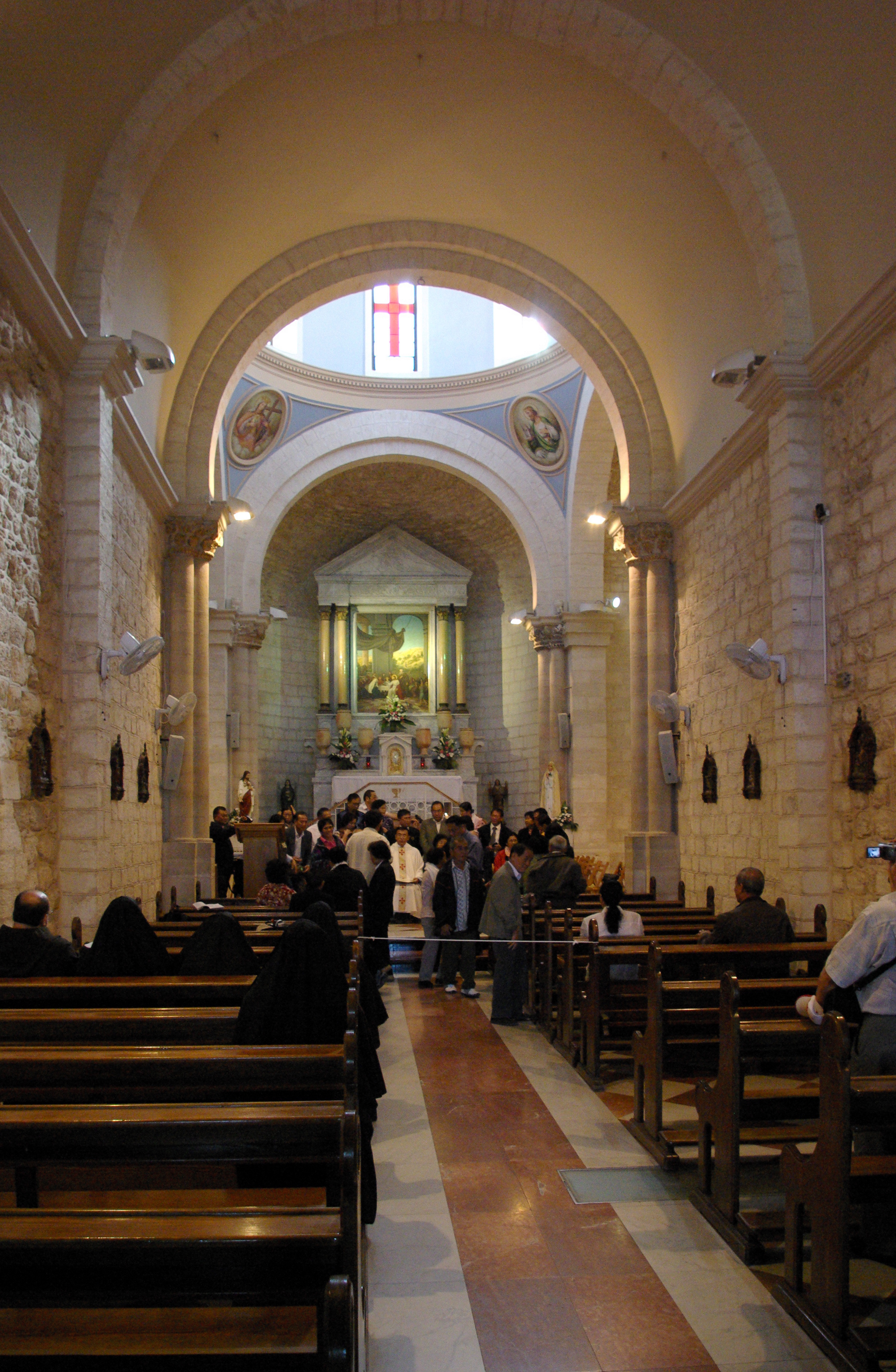 Weddingchurch in Kafr Kanna